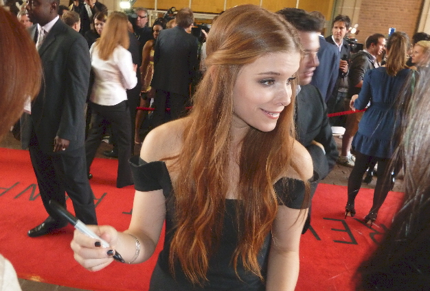 Kate Mara at the premiere of 127 Hours, Toronto Film Festival 2010. She hears an anti Giants fan. We shared a highfive when I let her know the Giants won 10 minutes before taking this picture, which prompted said anti Giants quote. PS - Her grandfather owns the Giants